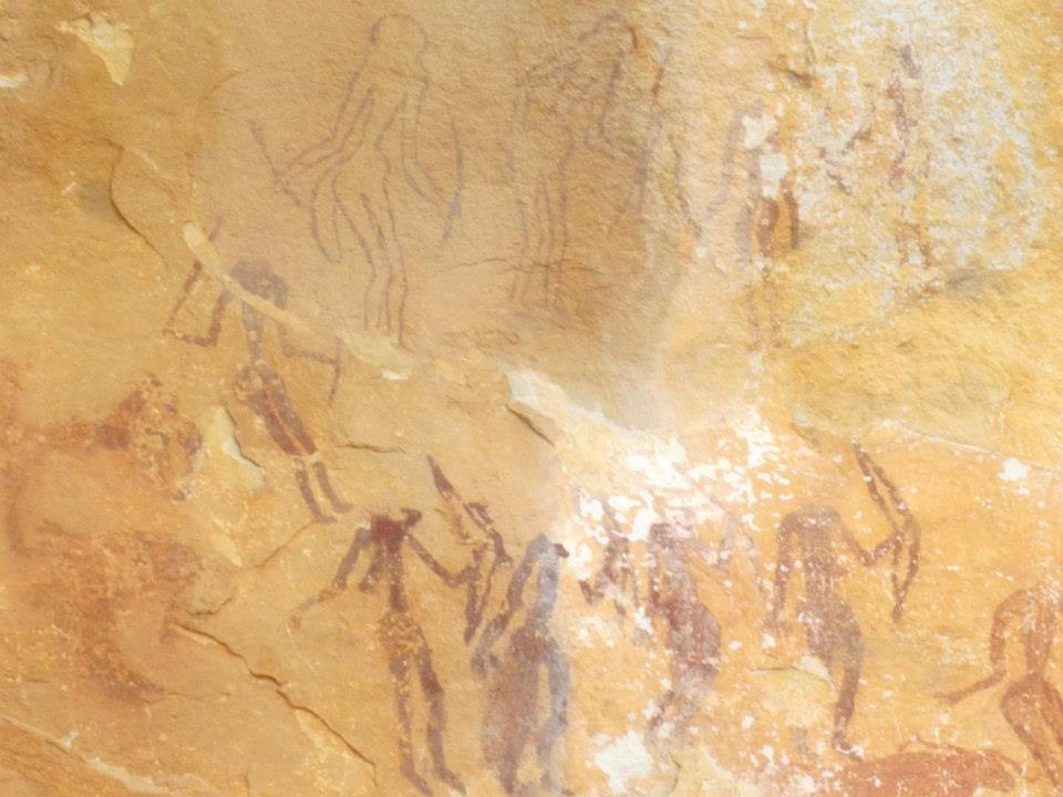 the happiest people don't have the best of everything